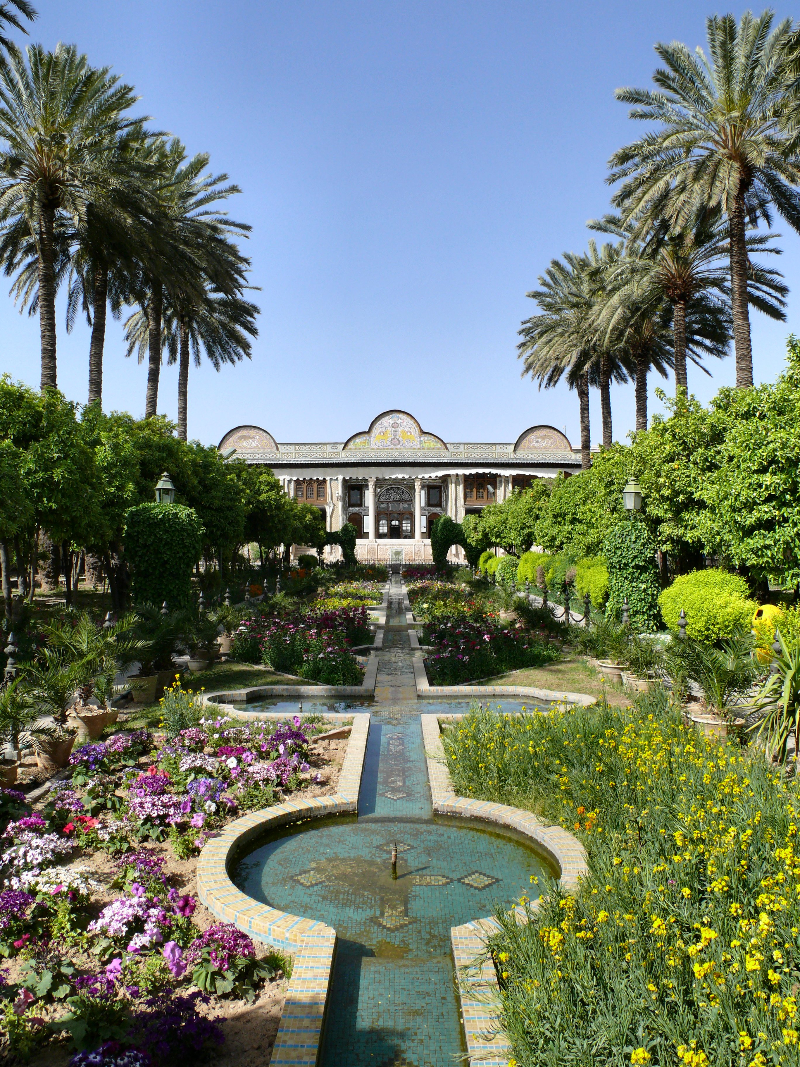 The Bagh-e Narenjestan (Orange Garden) of the Eram Garden — in Shiraz. The khaneh Ghavam (Ghavam house) is on axis in backround. The palace was built in the 1840s, during the Qajar dynasty era, for the local governor from whom it took the name. During the 1950s the palace hosted the Asian Institute, directed by Dr. Arthur Upham Pope. It currently hosts a museum belonging to the Shiraz University. "When I came in late April, the flowers of orange trees gave it a magic perfume. My soul was drunk with this beauty and flavors."